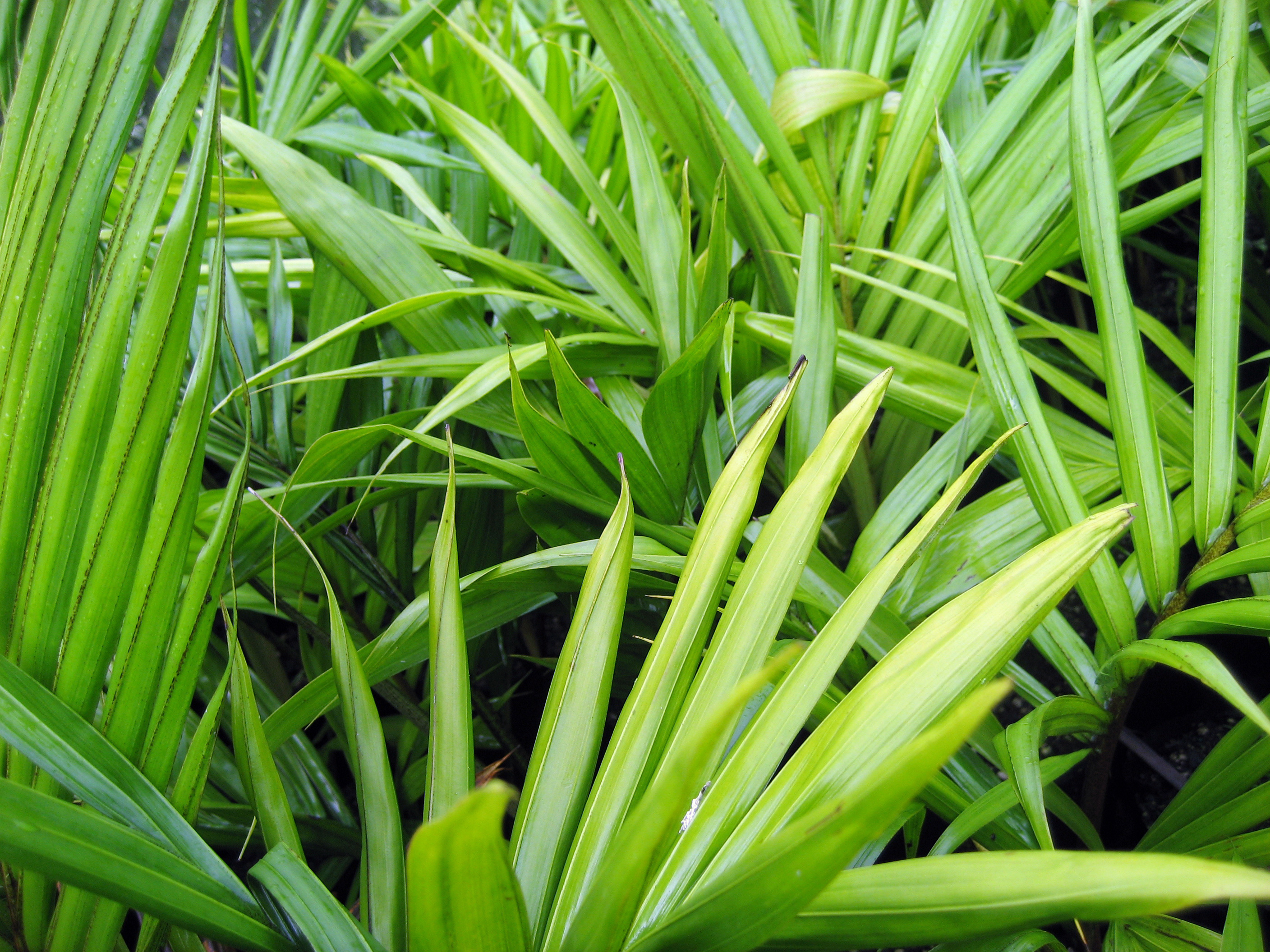 Rhopalostylis baueri, Kermadec Nikau, young plants being grown for sale in Auckland, New Zealand.